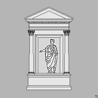 Aedicula